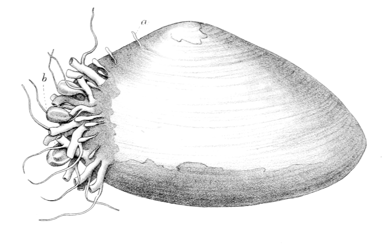 A colony of hydrozoan Monobrachium parasitum on Macoma calcarea shell.